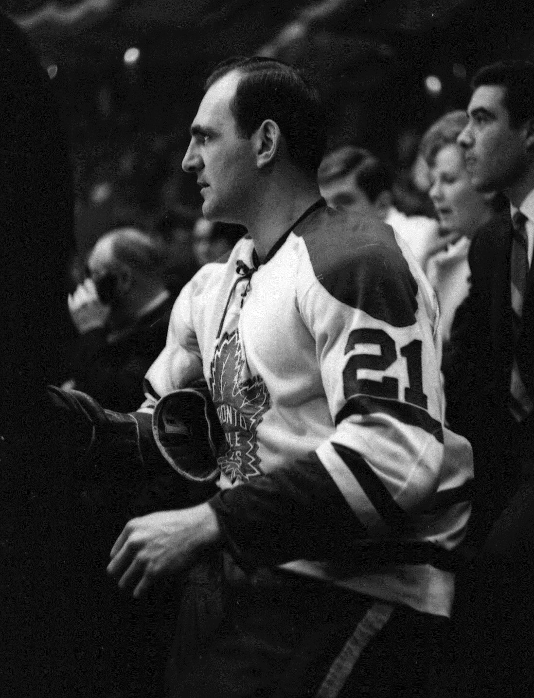 Bobby Baun, playing for the Toronto Maple Leafs, sitting in the penalty box at Madison Square Garden, New York City during a game against the New York Rangers.